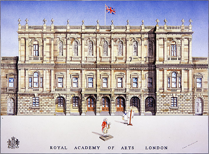 Royal Academy of Arts, London